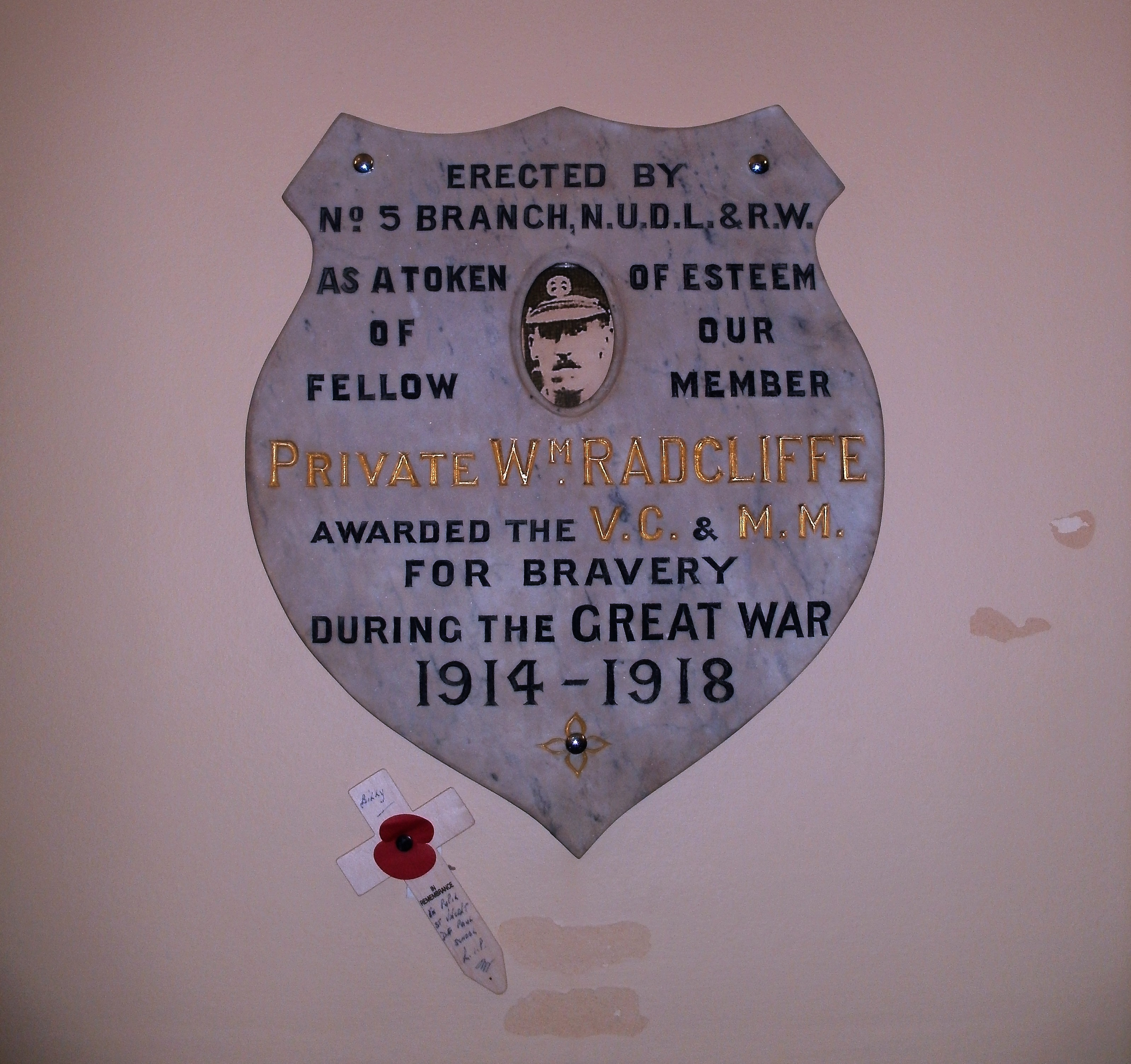 Private Wm Radcliffe VC memorial at Liverpool Town Hall See William Ratcliffe